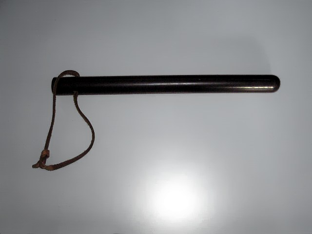 Police baton as in formerly use at the Austrian Federal Police. This one was photographed at the armory of the local police station in Dornbirn.